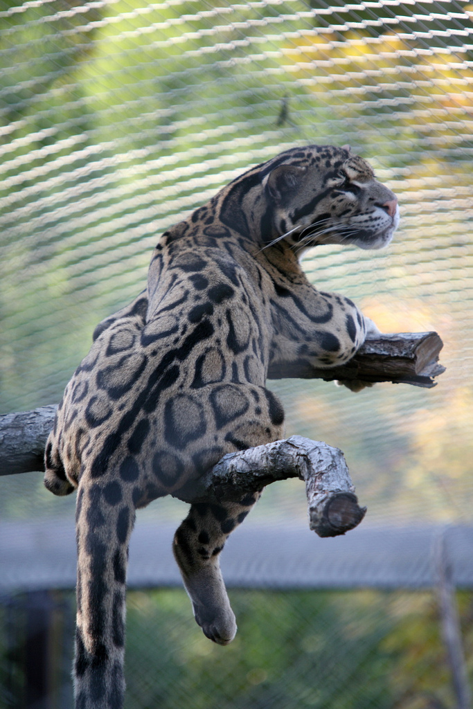 Neofelis nebulosa Diet: The clouded leopard’s diet includes birds, monkeys, pigs, cattle, goats, deer, and porcupines.